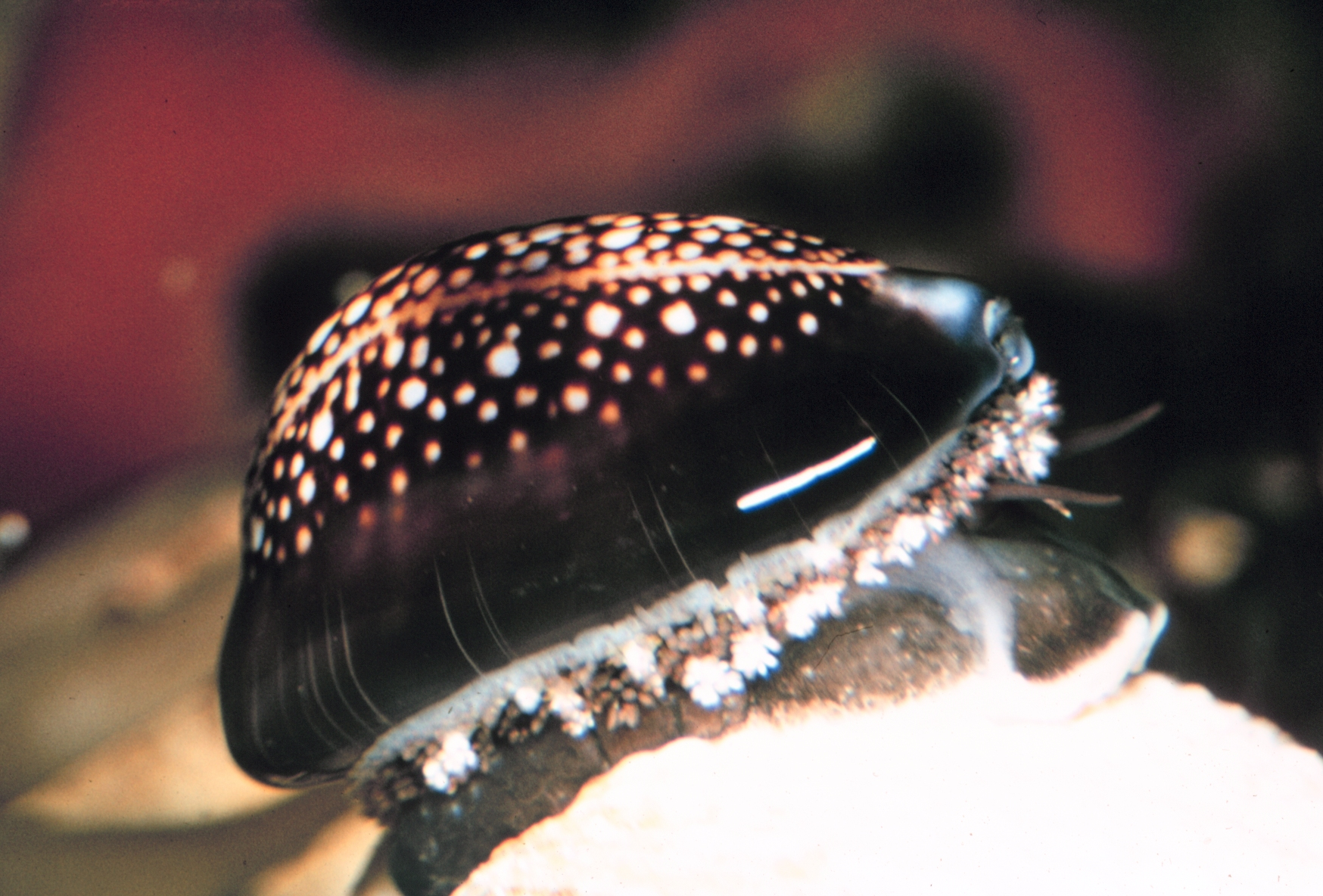 Monetaria caputserpentis (synonym : Cypraea caputserpentis), very common in intertidal rocky areas.